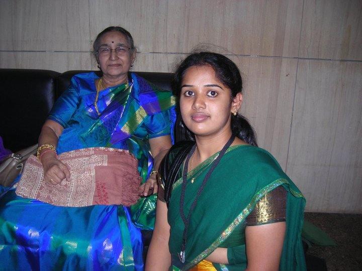 Dr. Uma Rama Rao with Kuchupudi Dance Students at HICC, Hyderabad on Event of Silicon Andhra 2nd International Kuchipudi Dance Convention.